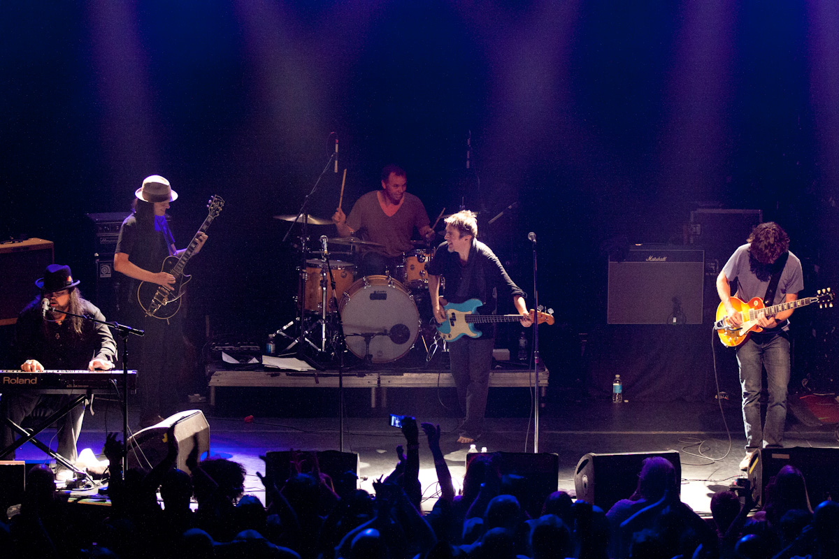 Brad (band) at Gramercy Theater in New York 2012